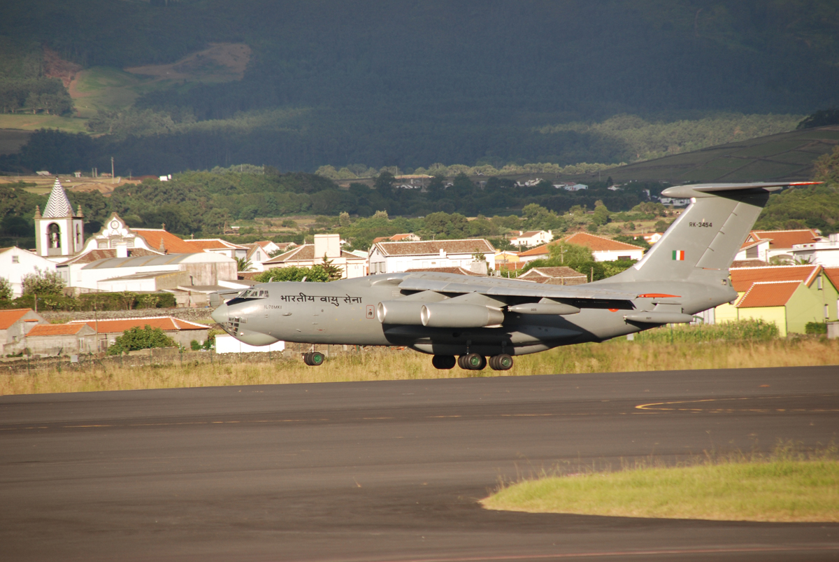 An Indian air force IL-78 air-to-air refueller lands at Lajes Field July 13. The IAF stopped at Lajes Field on their way to Red Flag at Nellis Air Force Base, Nev. This is the first time the IAF has deployed to the United States. Two IL-78s and one IL-76 transport aircraft escorted eight SU-30 MKI aircraft to Lajes Field.